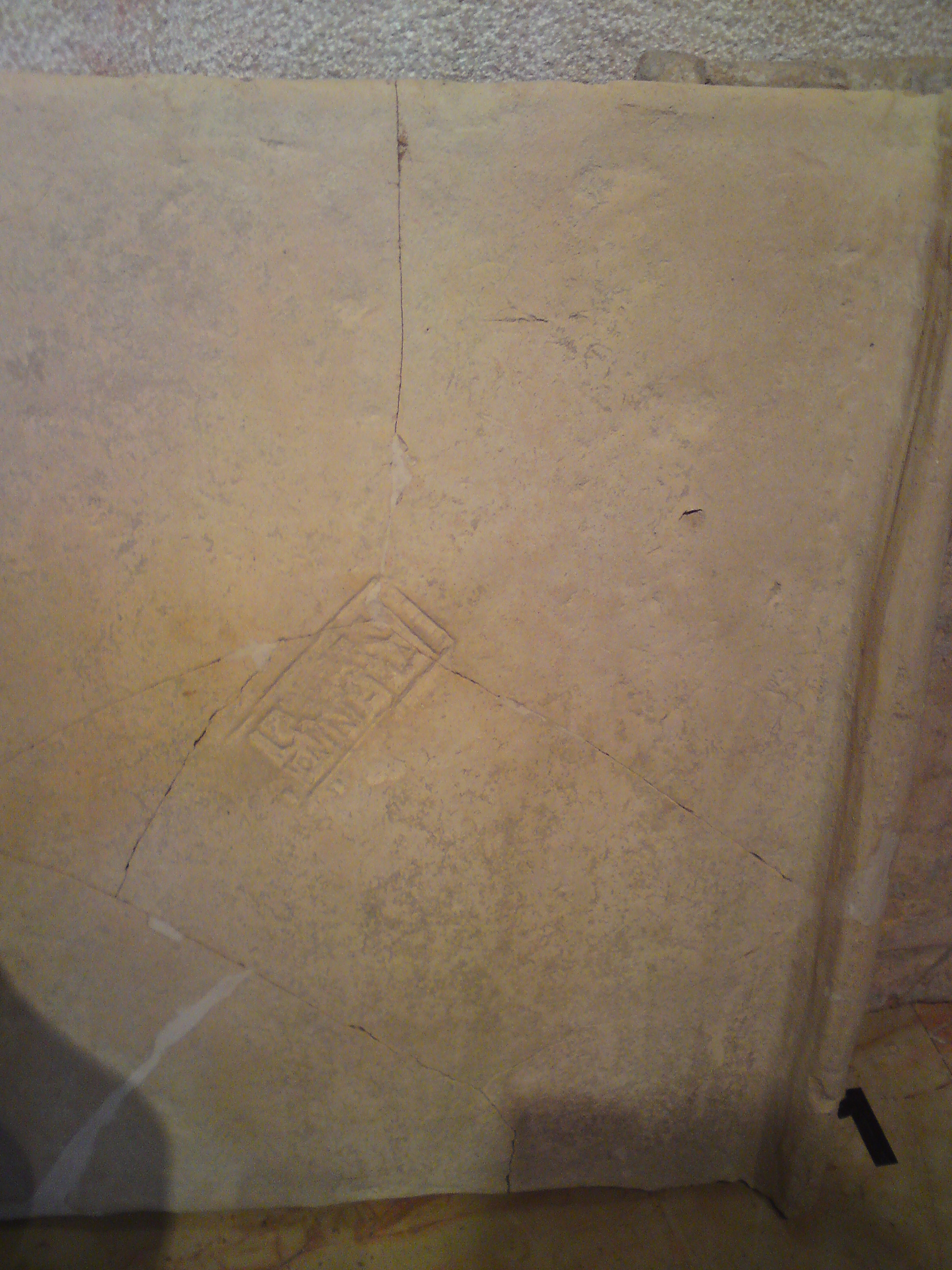 Brick Stamp-Impressions of the Legio X Fretensis - Type H